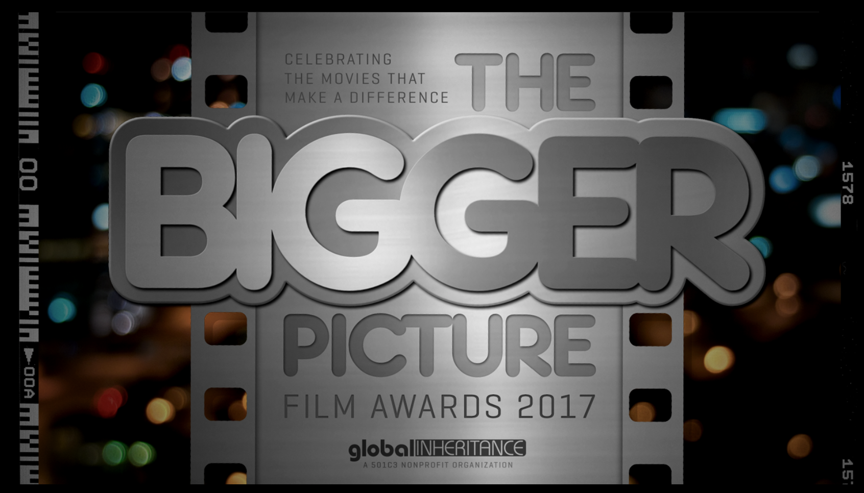 The Bigger Picture Film Awards is rewarding the best cause-based films and documentary as acclaimed by the public.